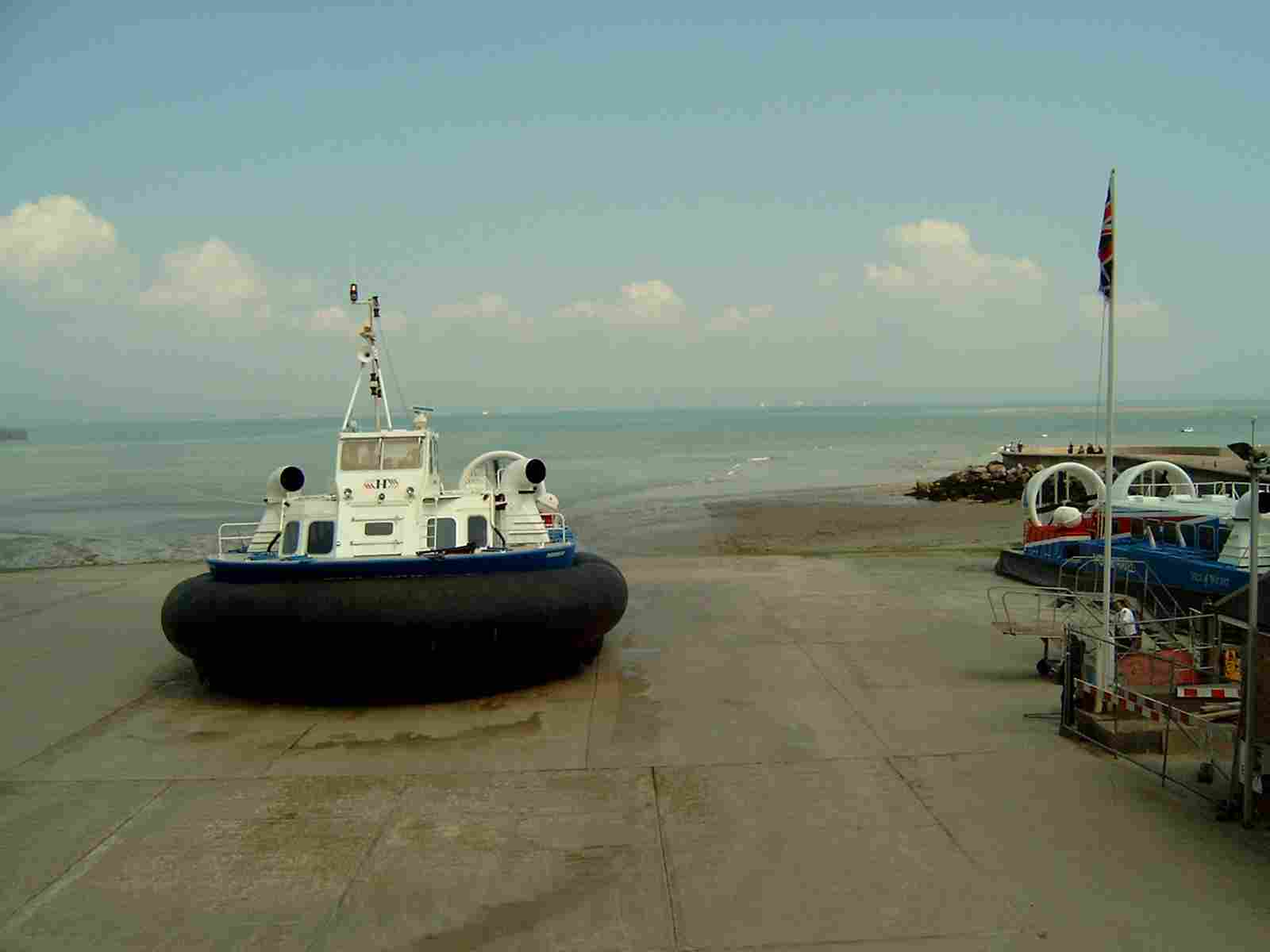 Ryde Hoverport, with Hovercraft, from the railway bridge